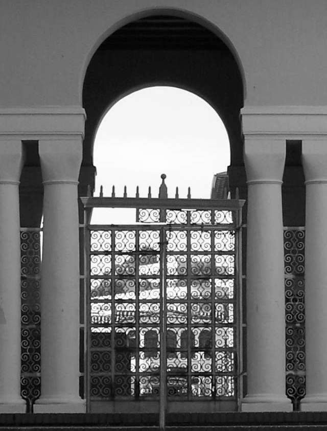 Balboa High School : arcade to gymnasium